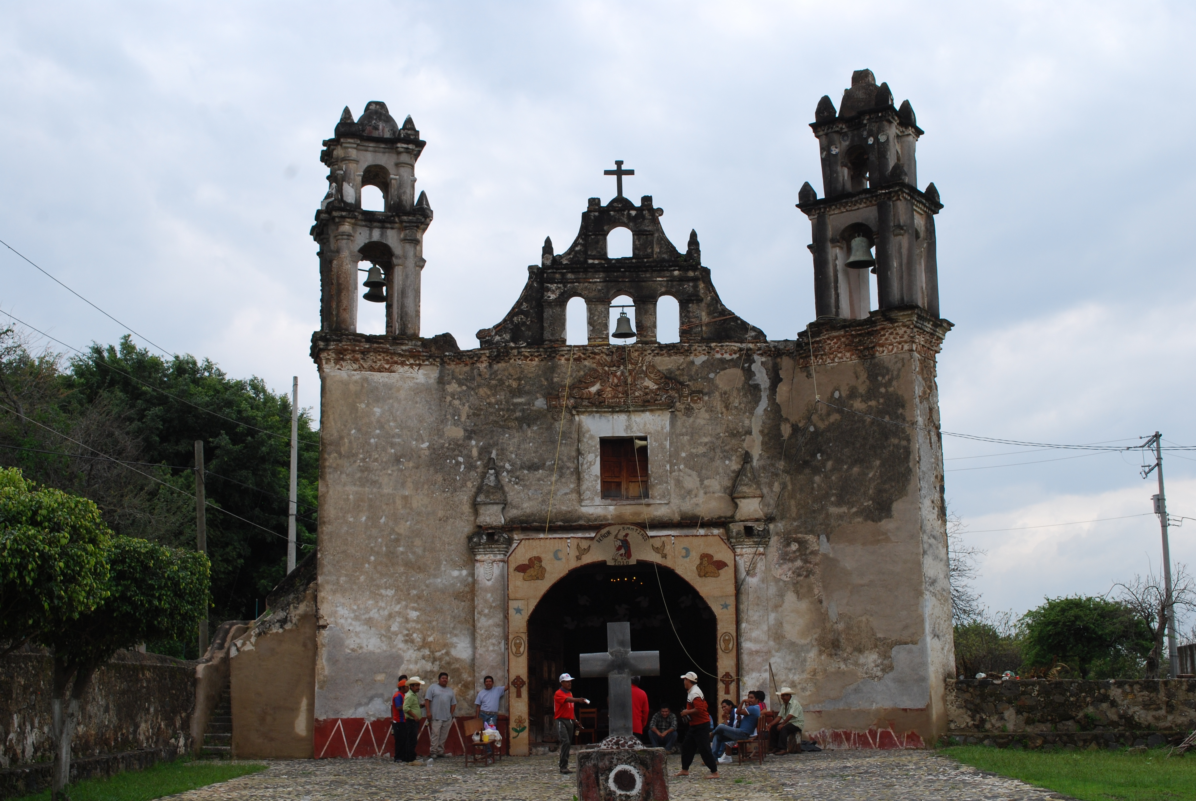 Facade of the Capilla Santiago in Tlayacapan, Morelos, Mexico